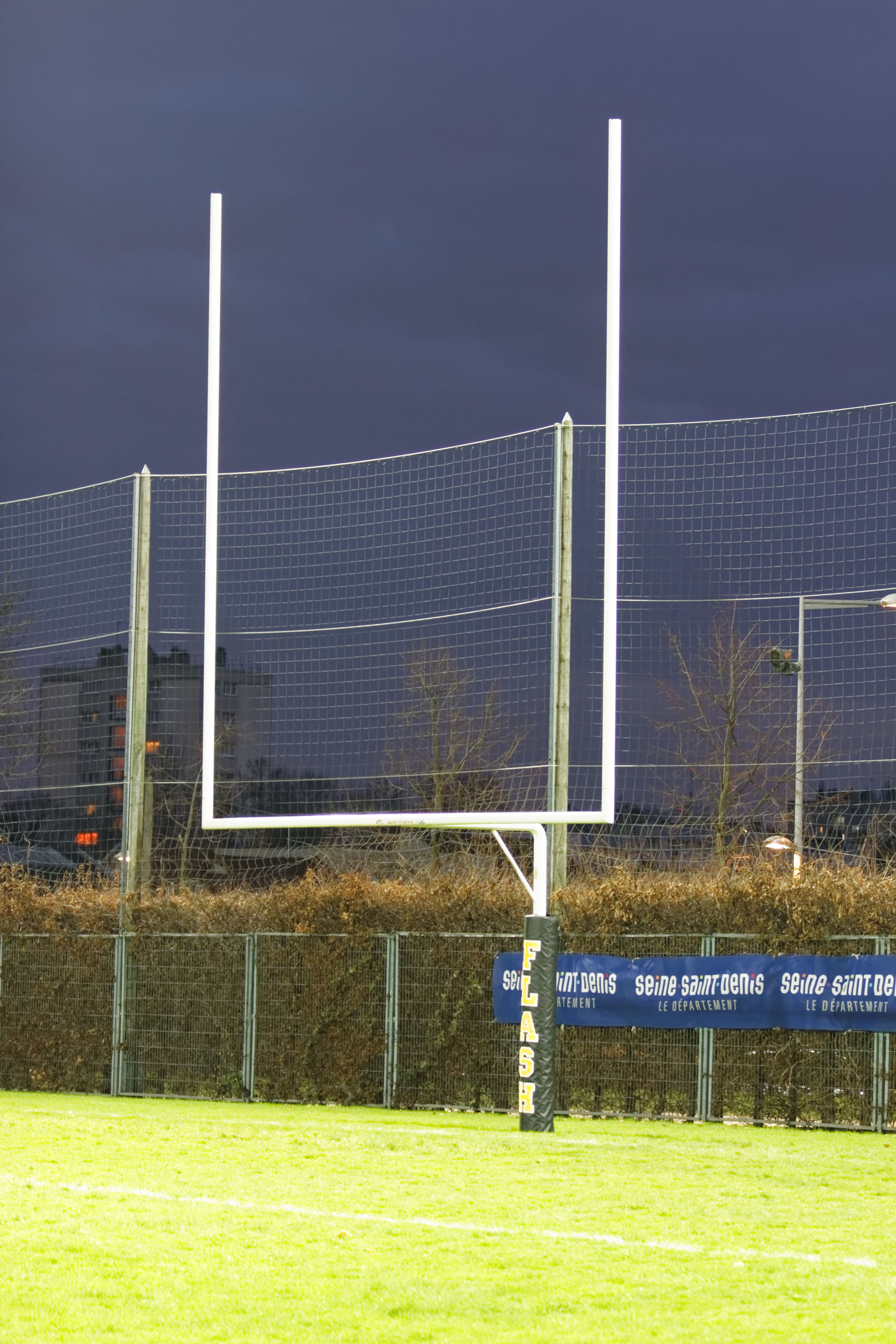 Flash vs Molosses, February 16th, 2013.